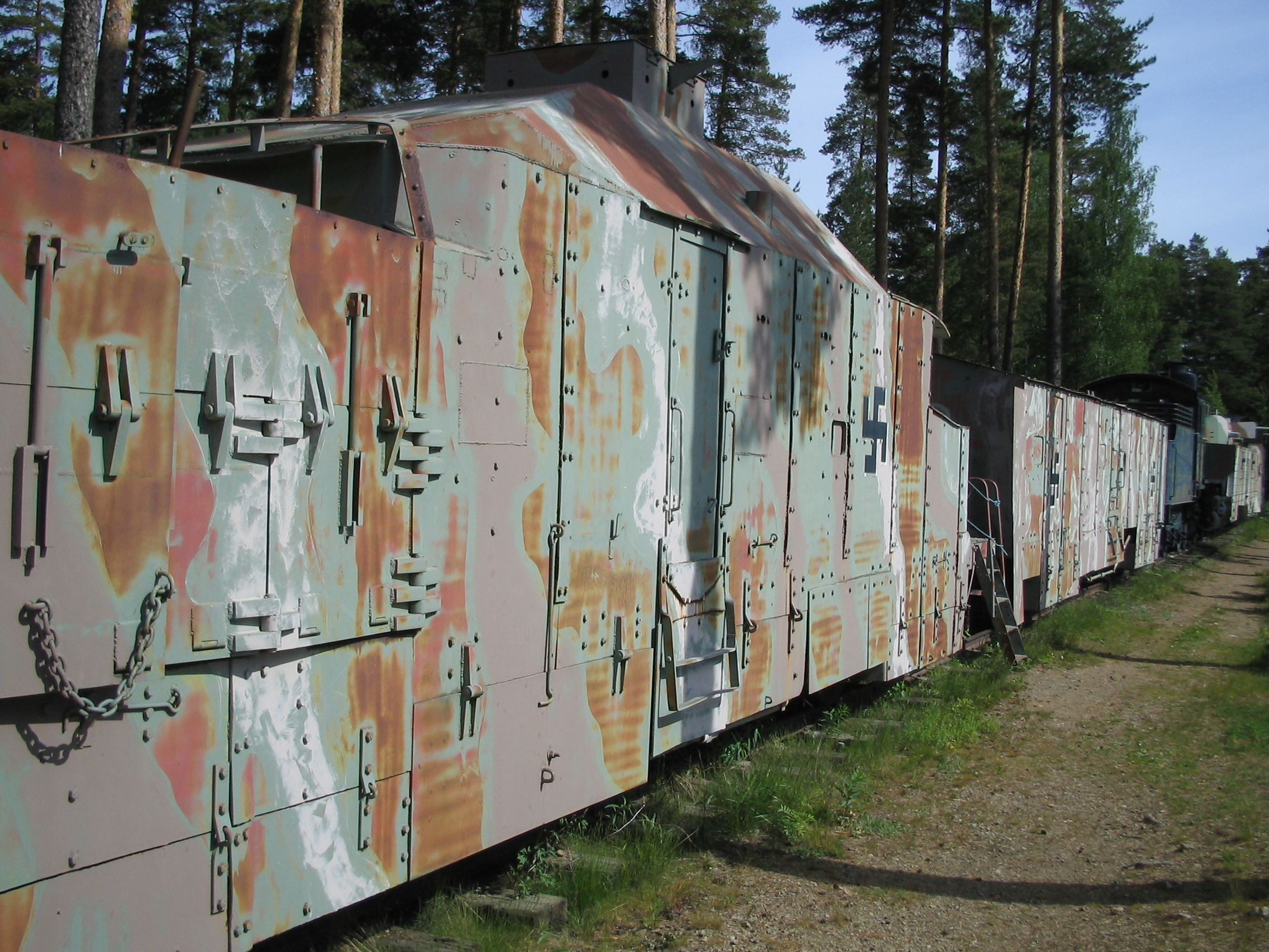 Armoured train, displayed in Parola tank museum.